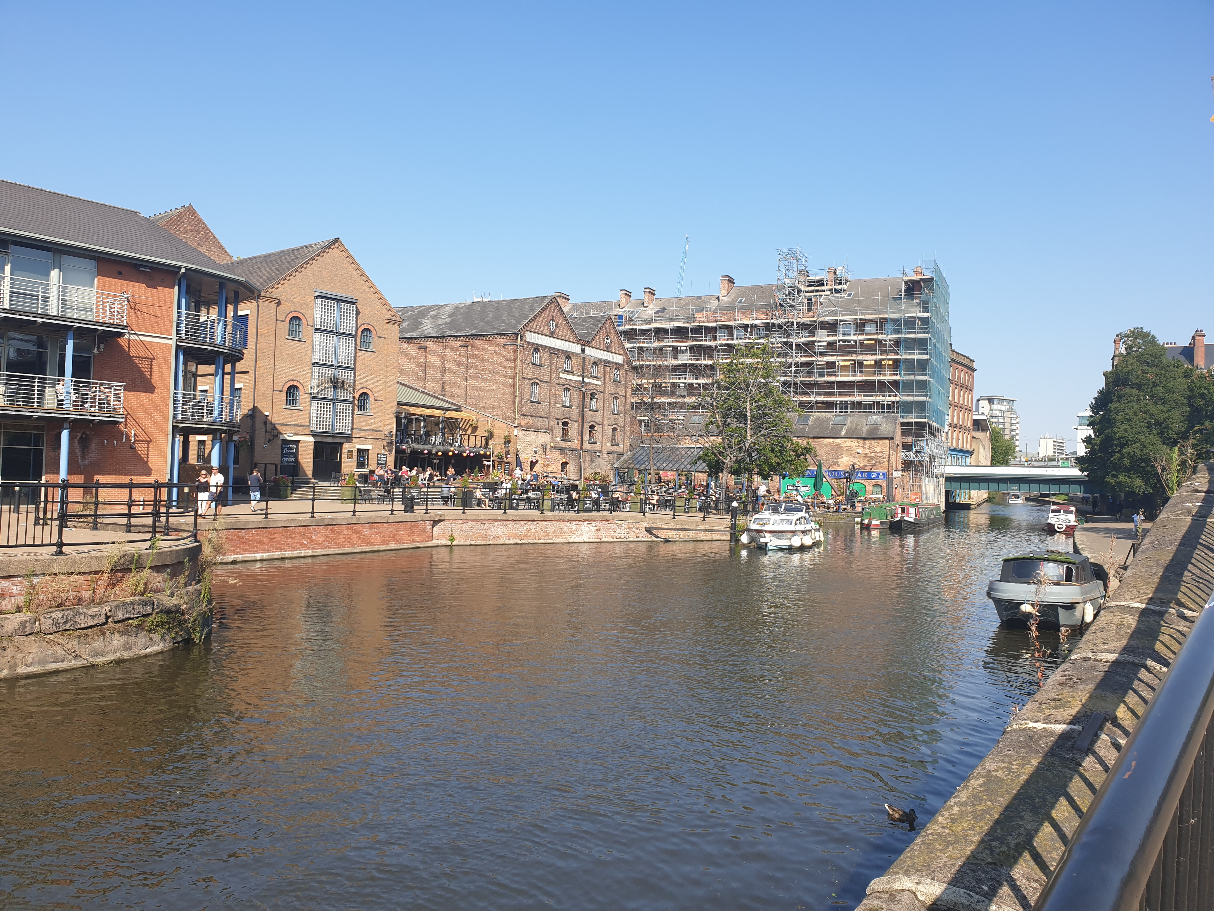 Castle Wharf in Nottingham looking east